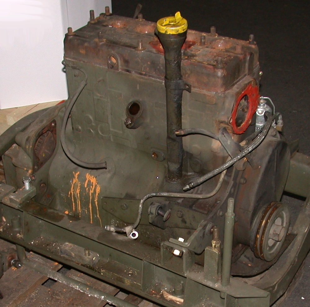 Go Devil Engine damaged without equipment